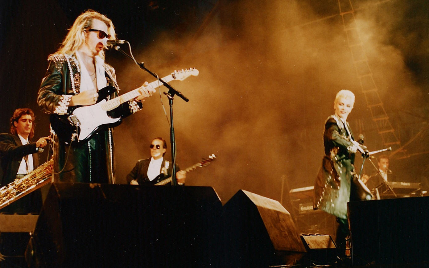 Eurythmics at Rock am Ring, Revenge tour, 1987